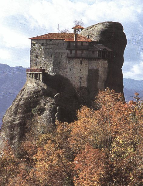 Agios Nikolaos Anapafsas